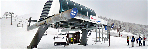 Skiers in the galician ski resort of Manzaneda